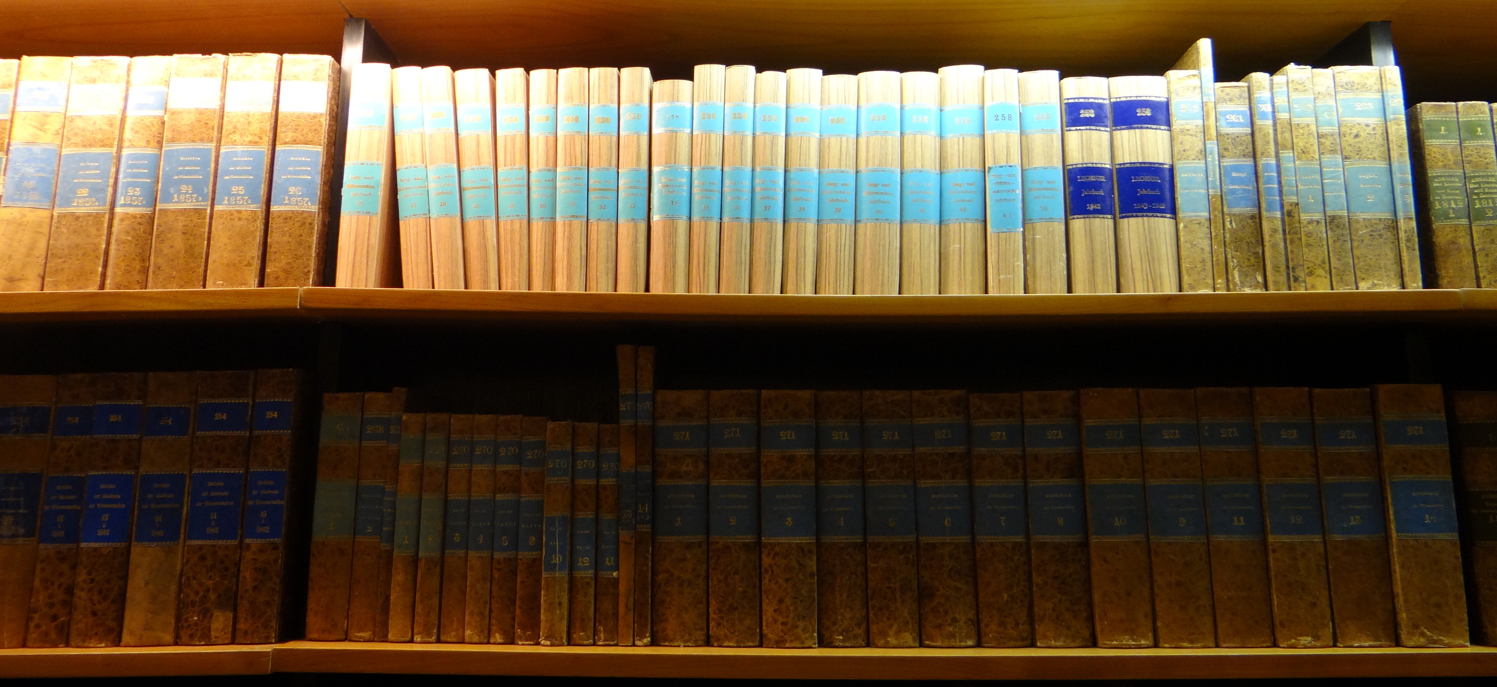 Selmec Museum Library, Miskolc, Hungary, Books from Category 10